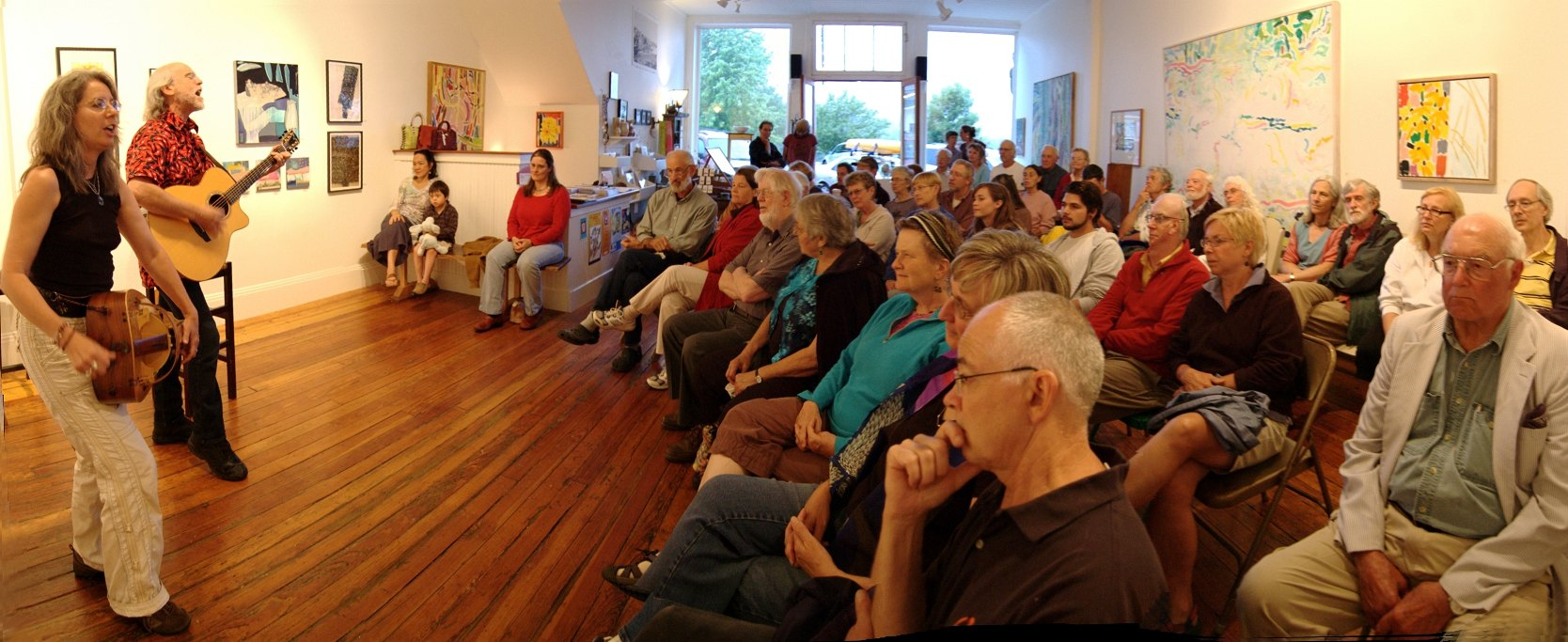 Folk musicians William Pint and Felicia Dale perform in Belfast, Maine, August 1, 2009